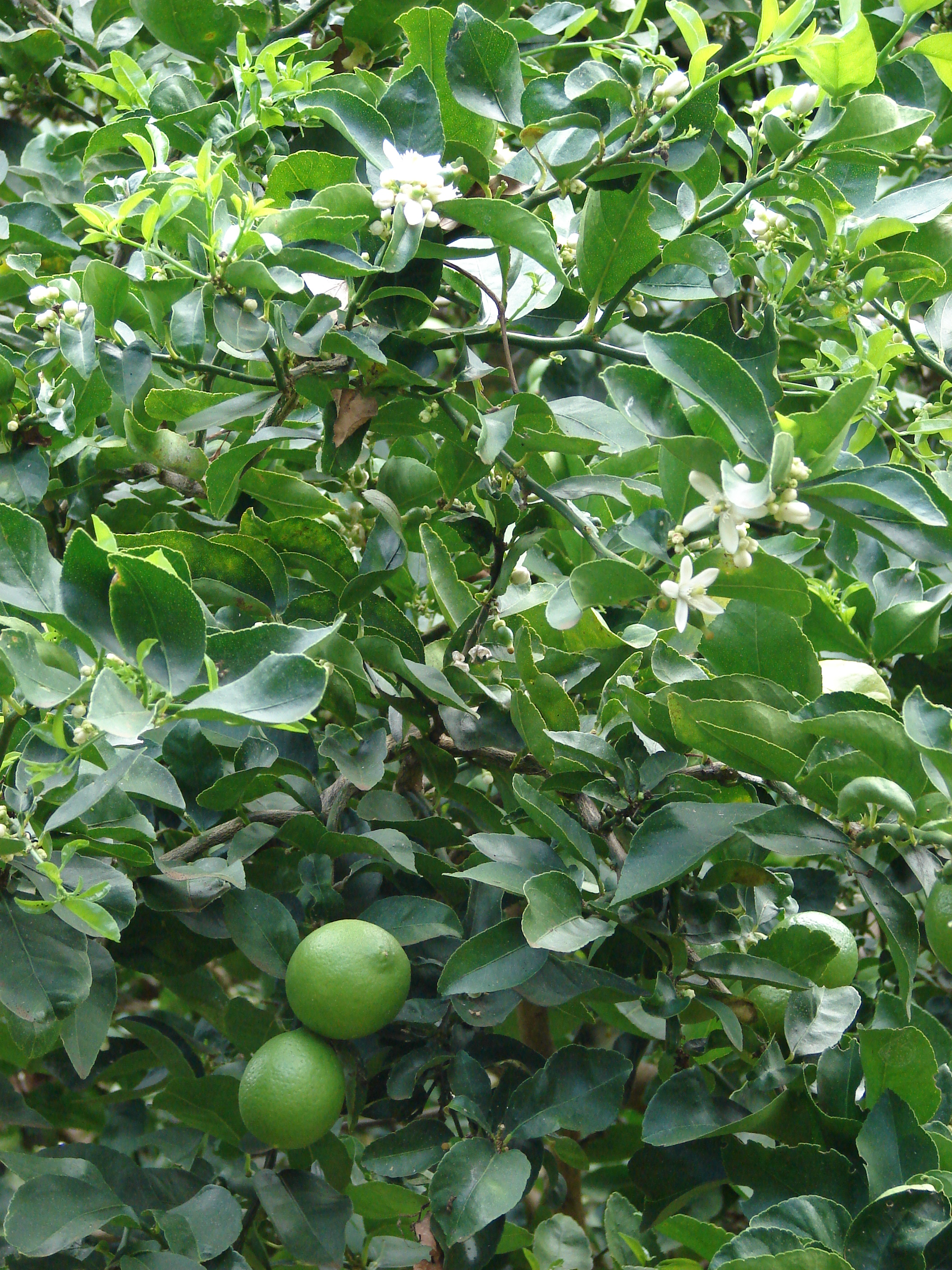 Citrus latifolia (fruit and flowers). Location: Maui, Makawao